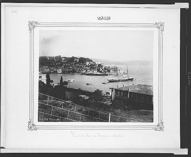 Gulf of Tarabya between 1880 and 1893